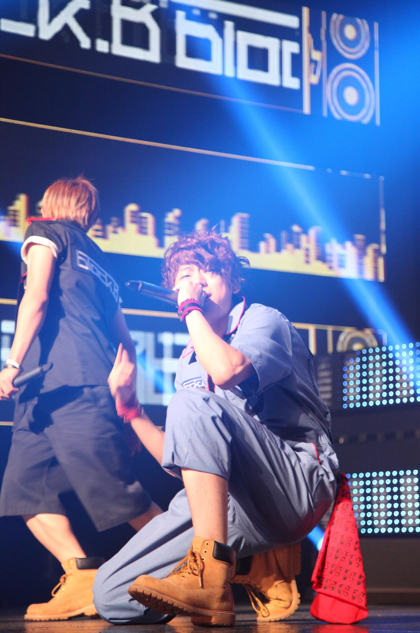 Zico performing with Block B at the 2011 Cyworld Dream Music Festival.